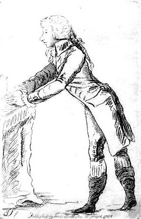 James Erskine, 2nd earl of Rosslyn.